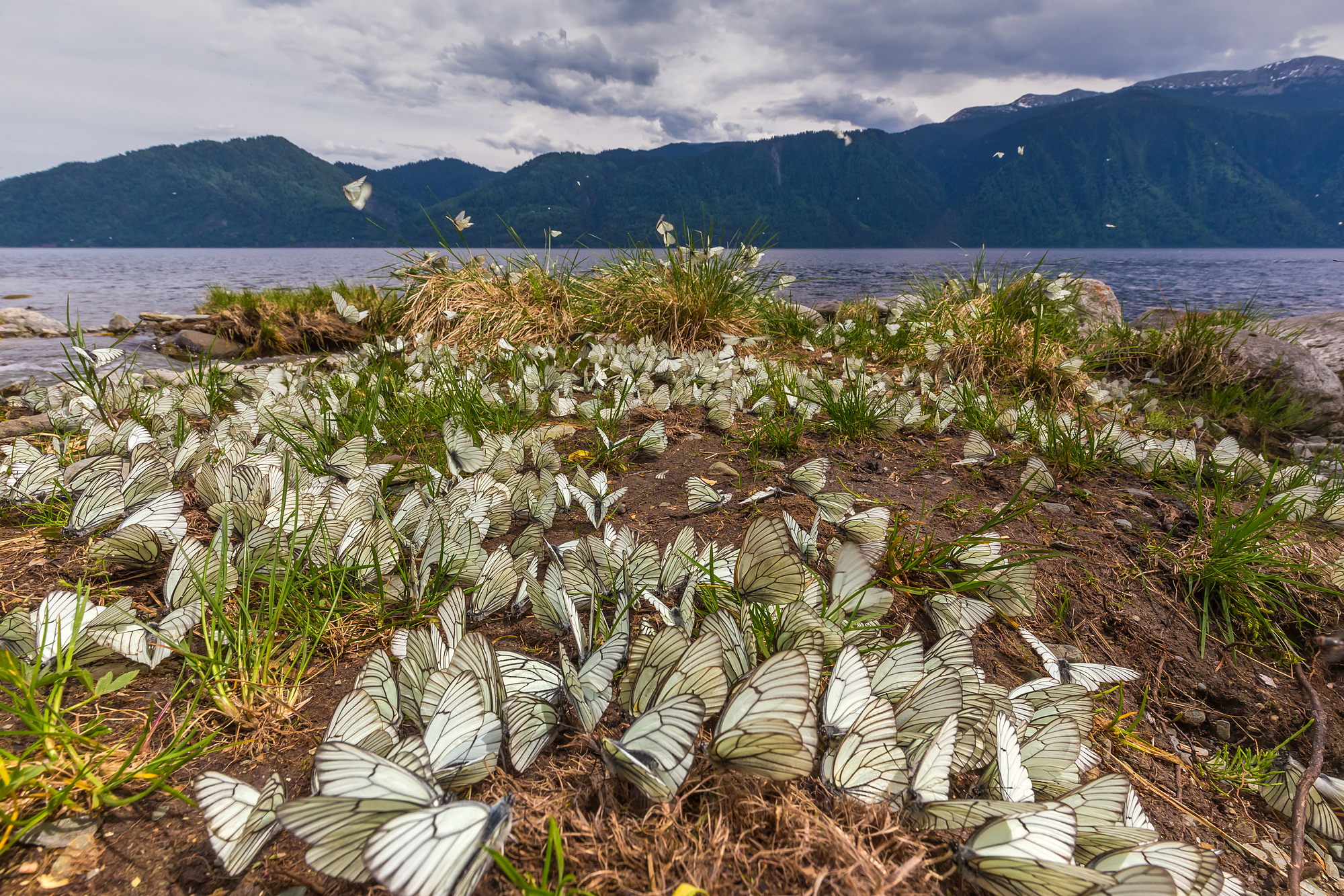 Black-veined white (Aporia crataegi) by the Lake Teletskoye in Altai Nature Reserve, Russia This image is related to the protected area of Russia number 0400028